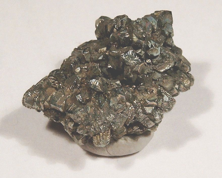 Mineral marcasite, width: 21 mm, location: clay layers in the gypsum opencast mine in Weenzen, Lower Saxony, Germany